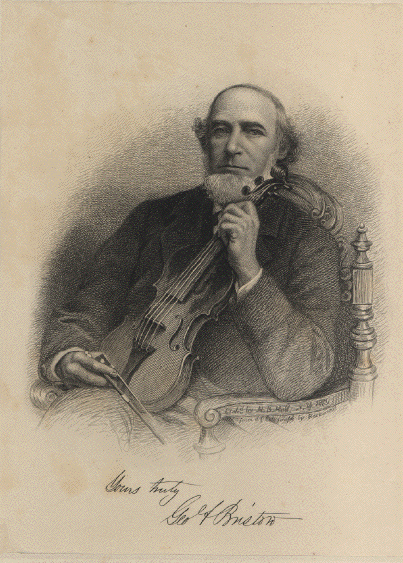 George Frederick Bristow. Taken from - due to its age it's in the public domain